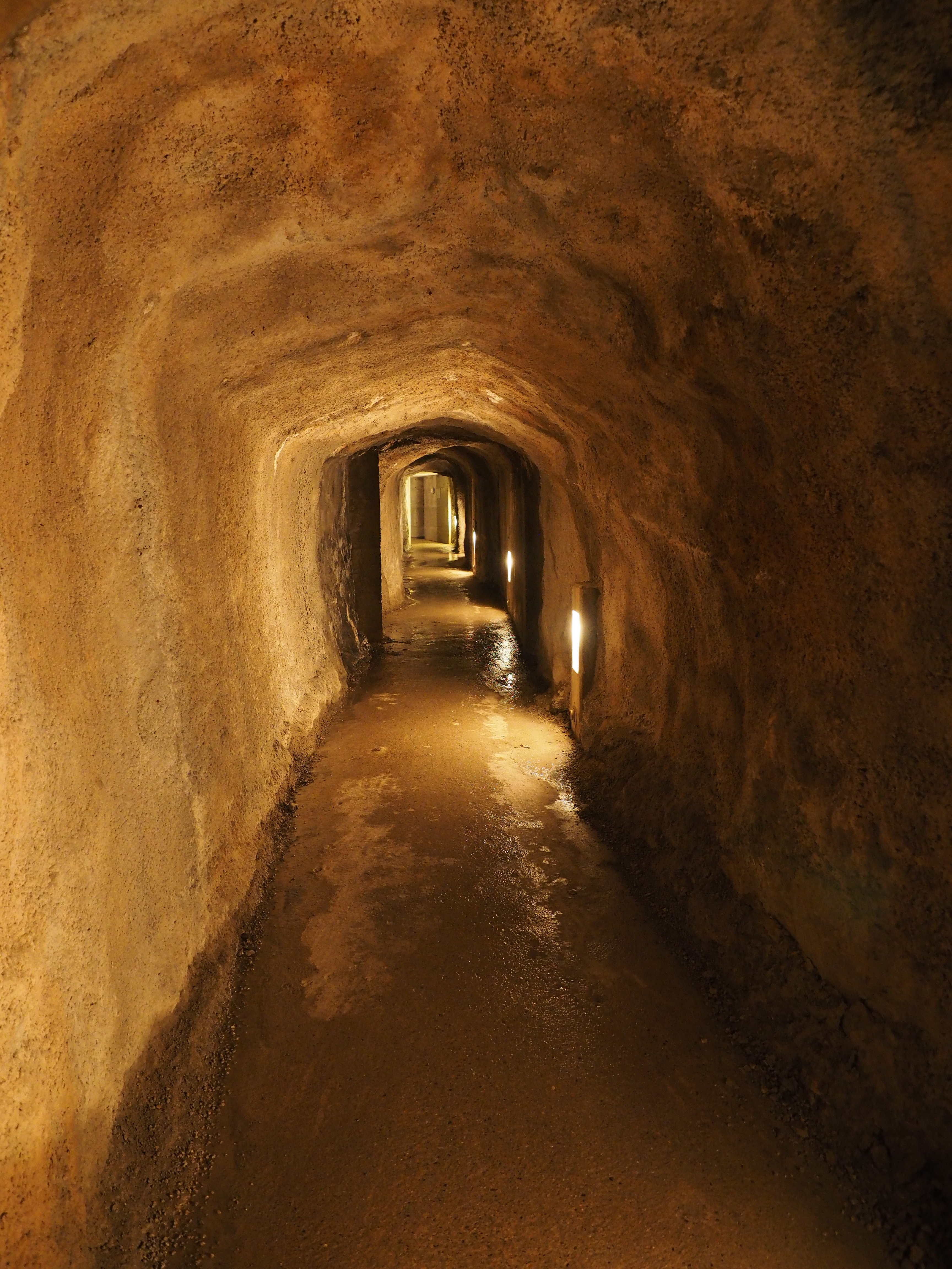 pedestrian tunnel Säntis